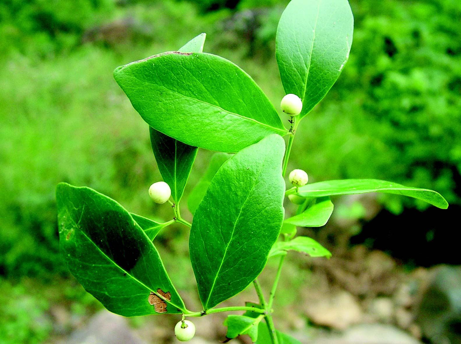 Pleurostylia opposita